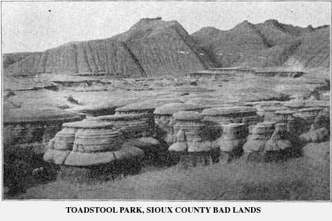 Image of Toadstool Geologic Park